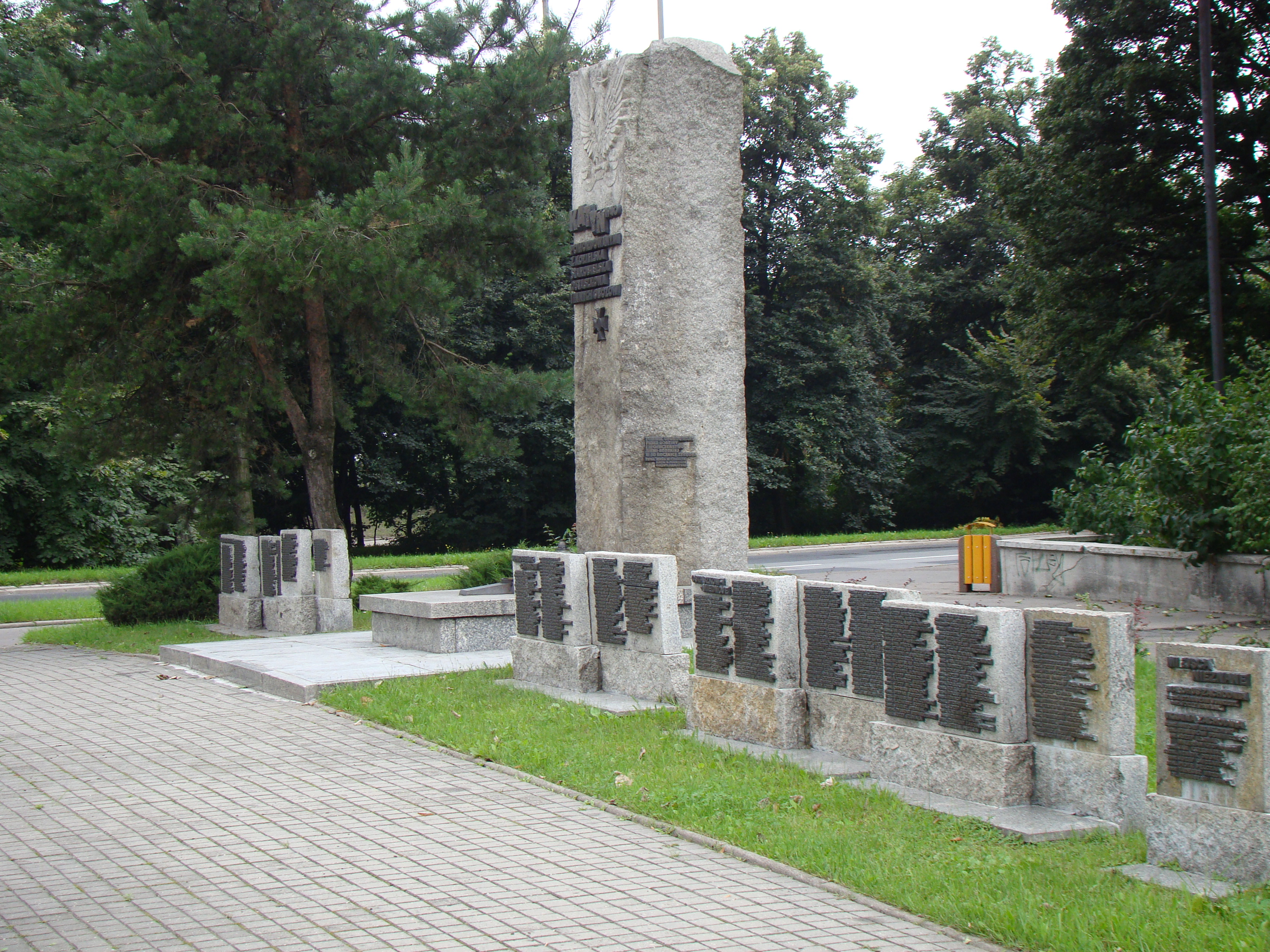 Katyn Memorial in Łódź (3)